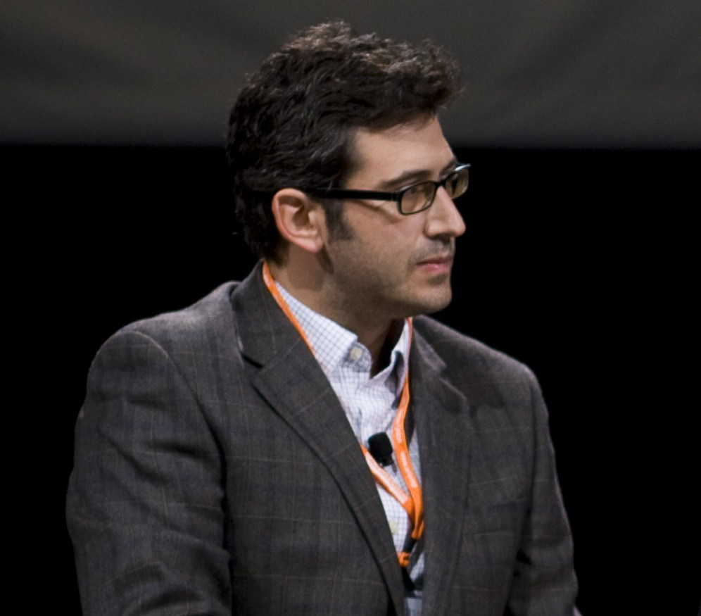 Former Alabama Governor Don Siegelman and Sam Seder at Netroots Nation 2008 in Austin, Texas.